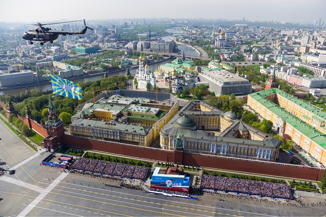 Russian Air Force Mil Mi-8